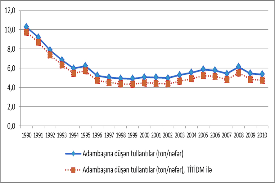 Comparison of heat-emitting gas emissions over the years